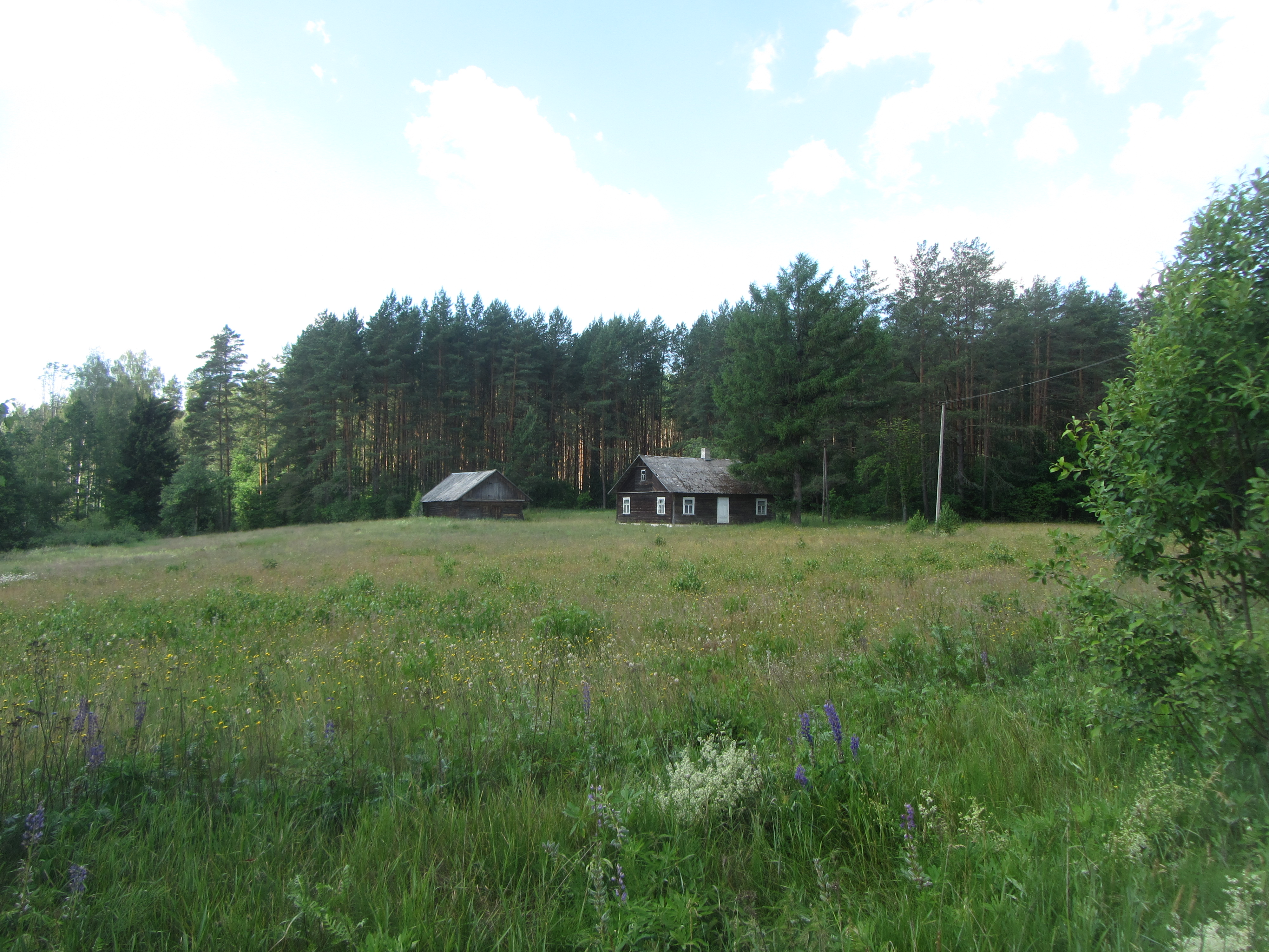 Birštono sen., Lithuania